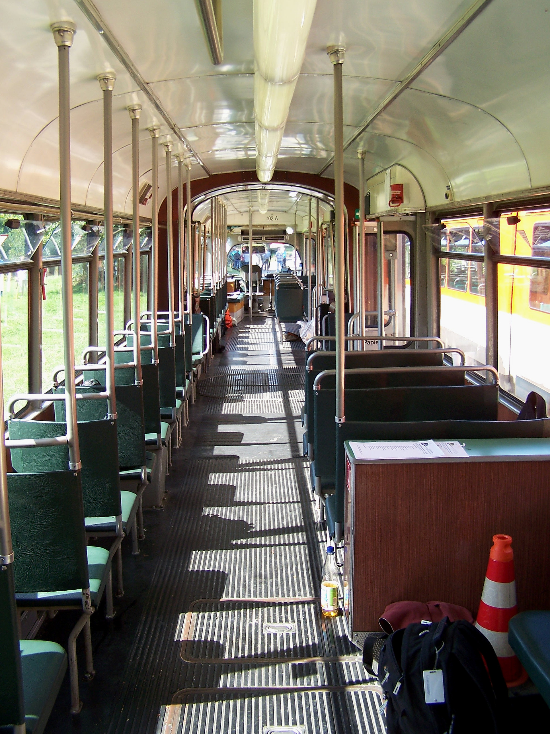 Tramway at Frankfurt am Main: Inside view of VGF type M railcar 102 (602) in Frankfurt-Sachsenhausen, August 1st, 2009